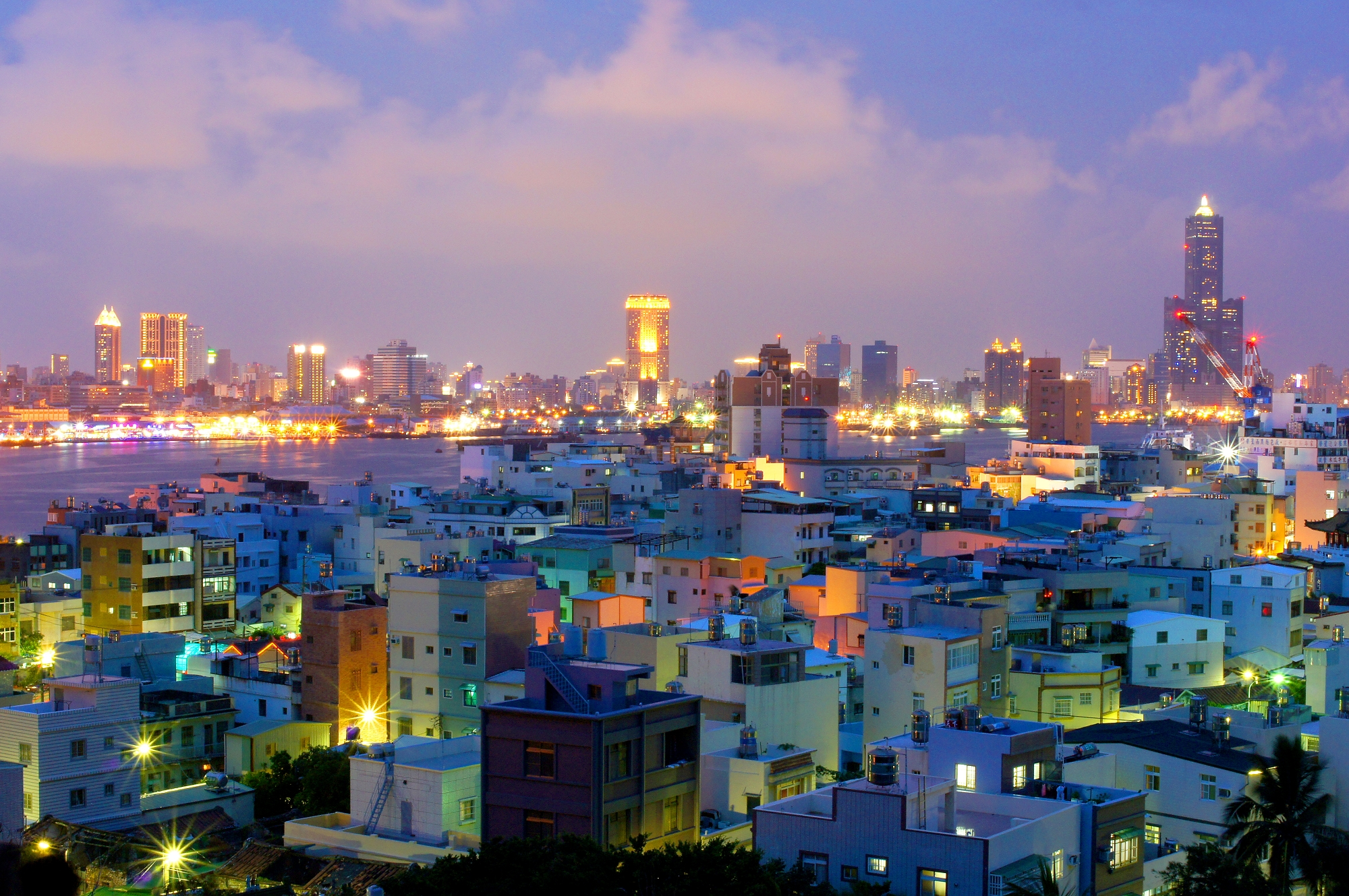 Cijin District night scene, view from Mt. Qi Hou